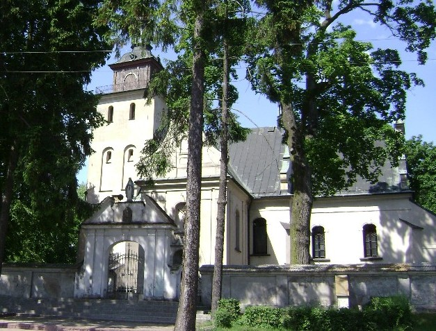 Karnkowo